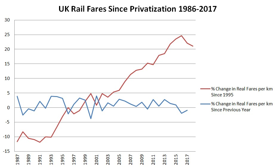 Inflation-adjusted revenue from the House of Commons Library's "Railways: Fares statistics" and km traveled from Department of Transport's "Passenger transport: by mode, annual from 1952."